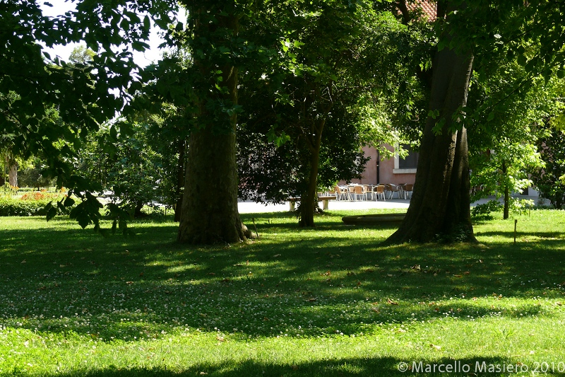 VIU campus